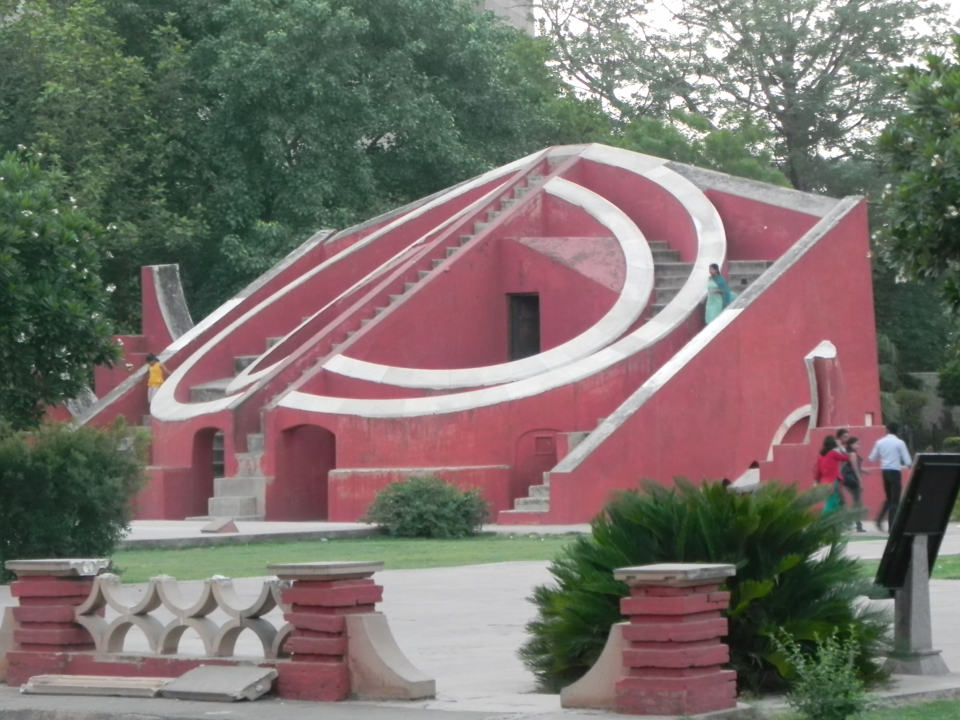 Image of Mishra Yantra at Jantar Mantar, New Delhi